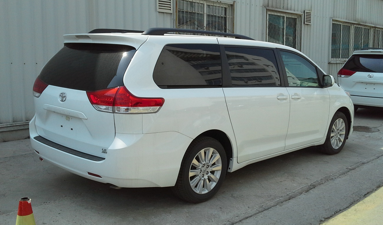 Toyota Sienna XL30 photographed in Beijing, China.